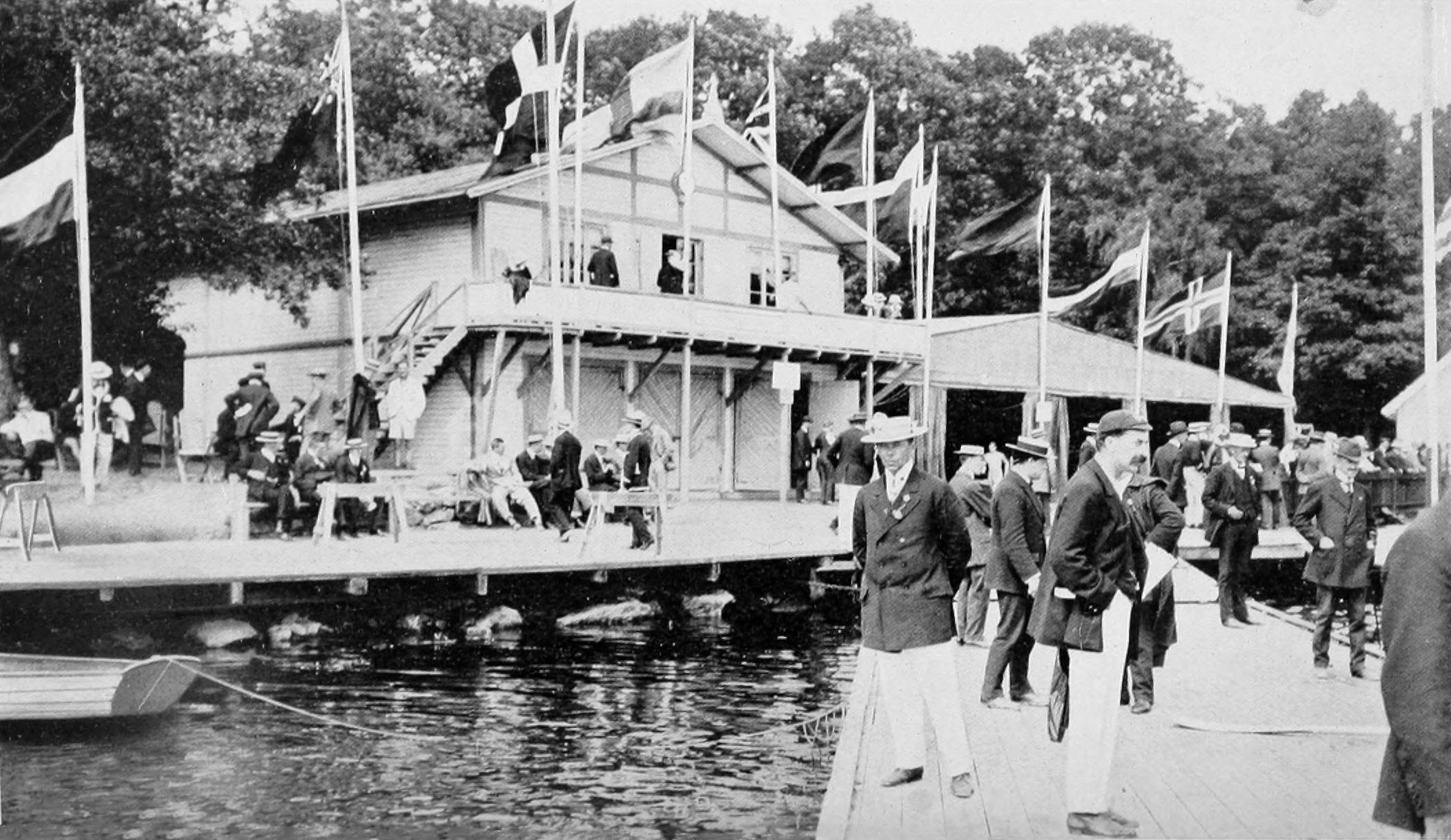 The Stockholm rowing club's boat house at the 1912 Summer Olympics